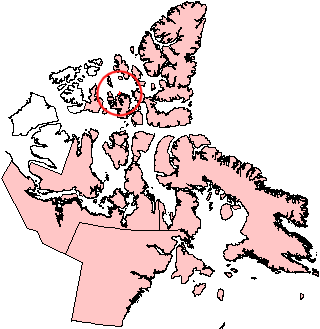 Map showing location of Helena Island, Nunavut